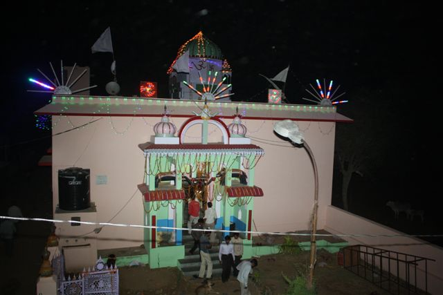 Baba Umad Singh Mela 2011 on date 18.05.2011